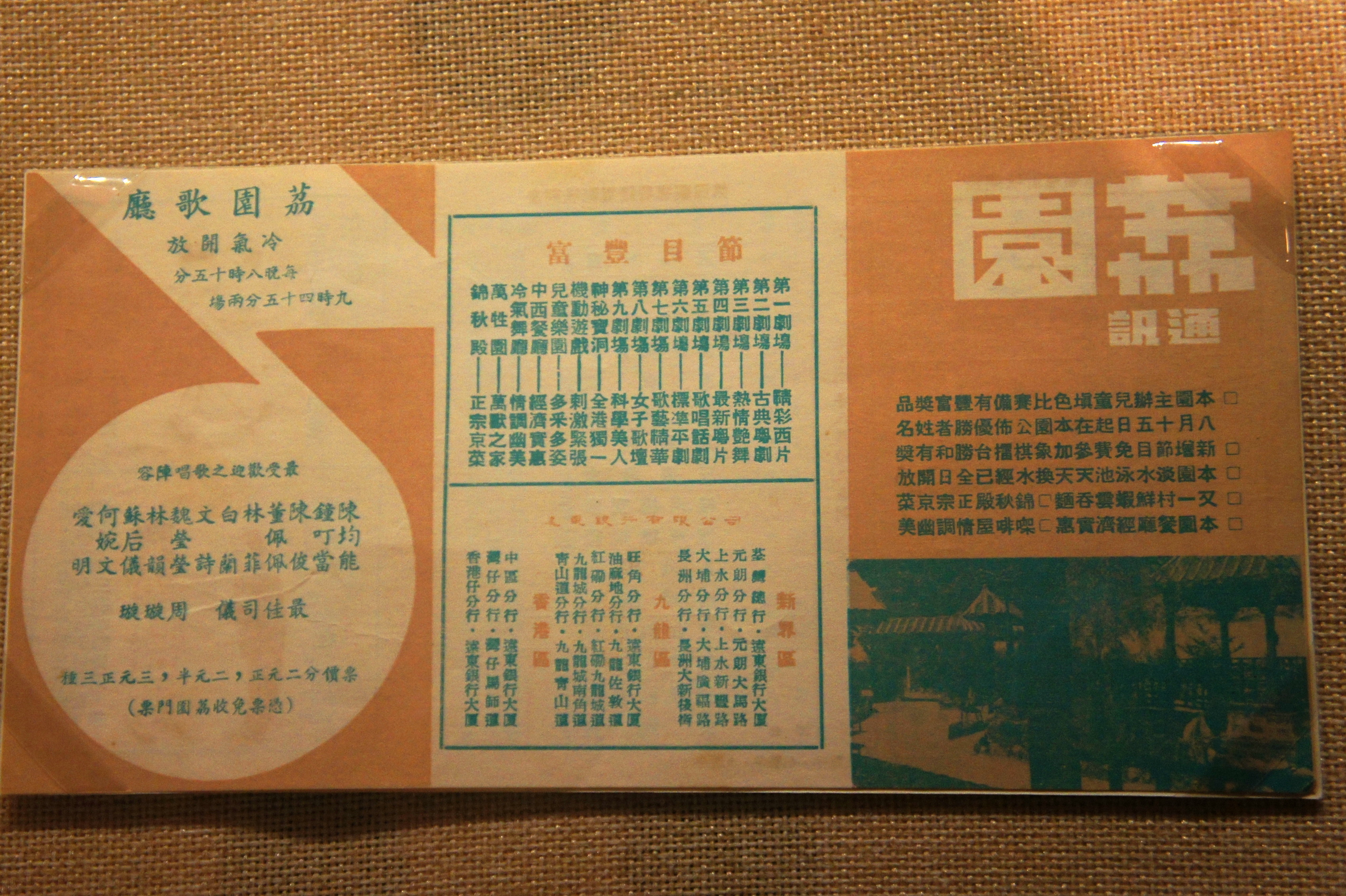 A programme book of the Lai Chi Kok Amusement Park, 1970. An exhibit of the Hong Kong Heritage Museum.